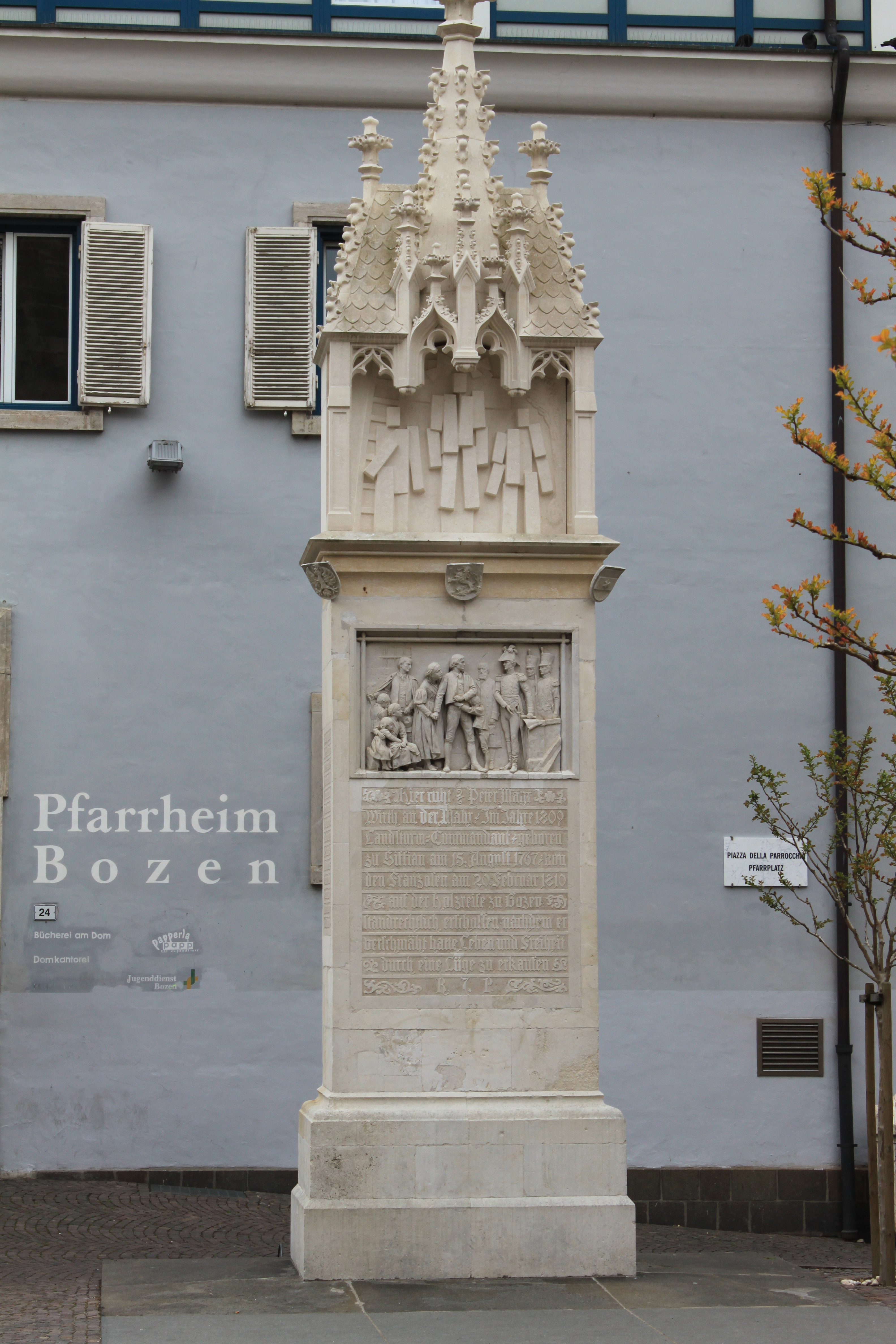 Monument for Peter Mayr (1767-1810), hero of the Tyrolean struggle for freedom, in Bozen Bolzano South Tyrol